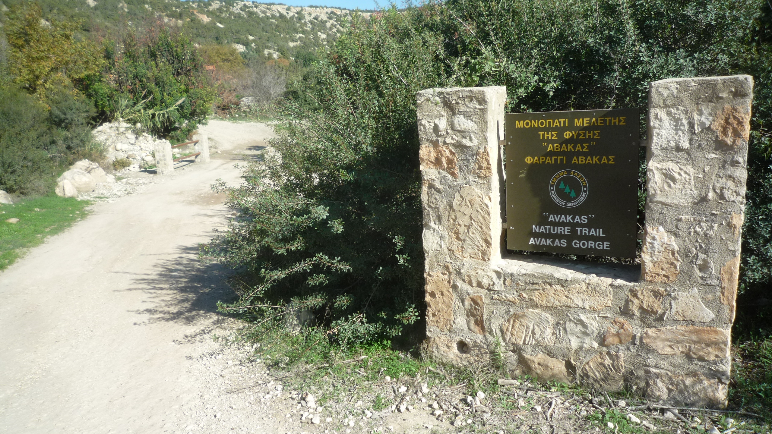 Avakas gorge entrance